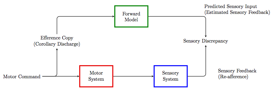 Image showing the process of efference copies in a forward model environment. Modified to improve and correct the original which mistakenly showed corollary discharge as distinct from efference copy in a way that it is not. Modified to more closely resemble .